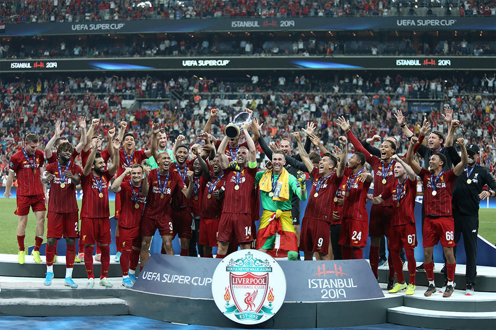 Liverpool vs. Chelsea, 2019 UEFA Super Cup